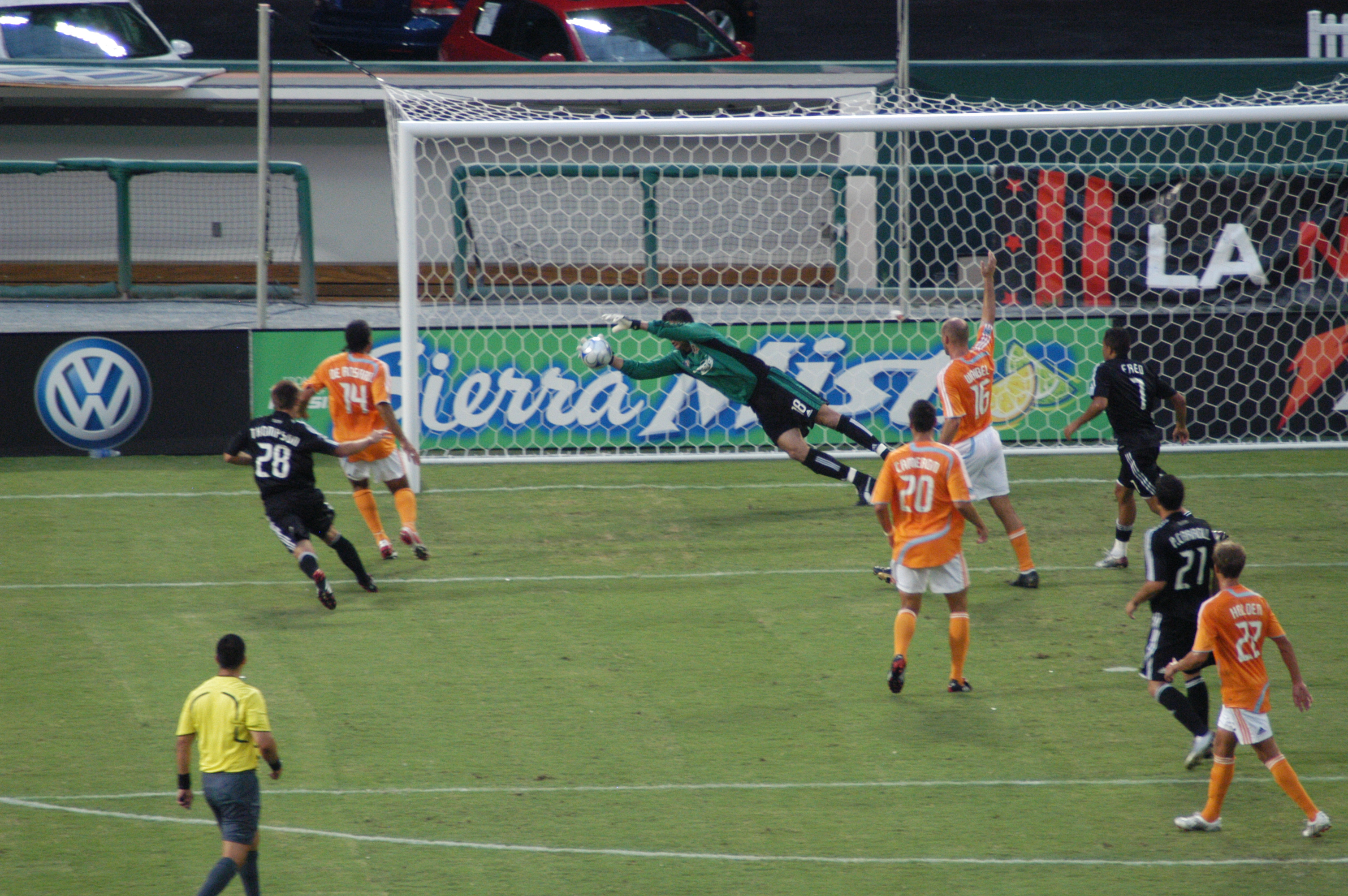 Pat Onstad of Houston Dynamo making a save against D.C. United during a 2008 North American SuperLiga match.